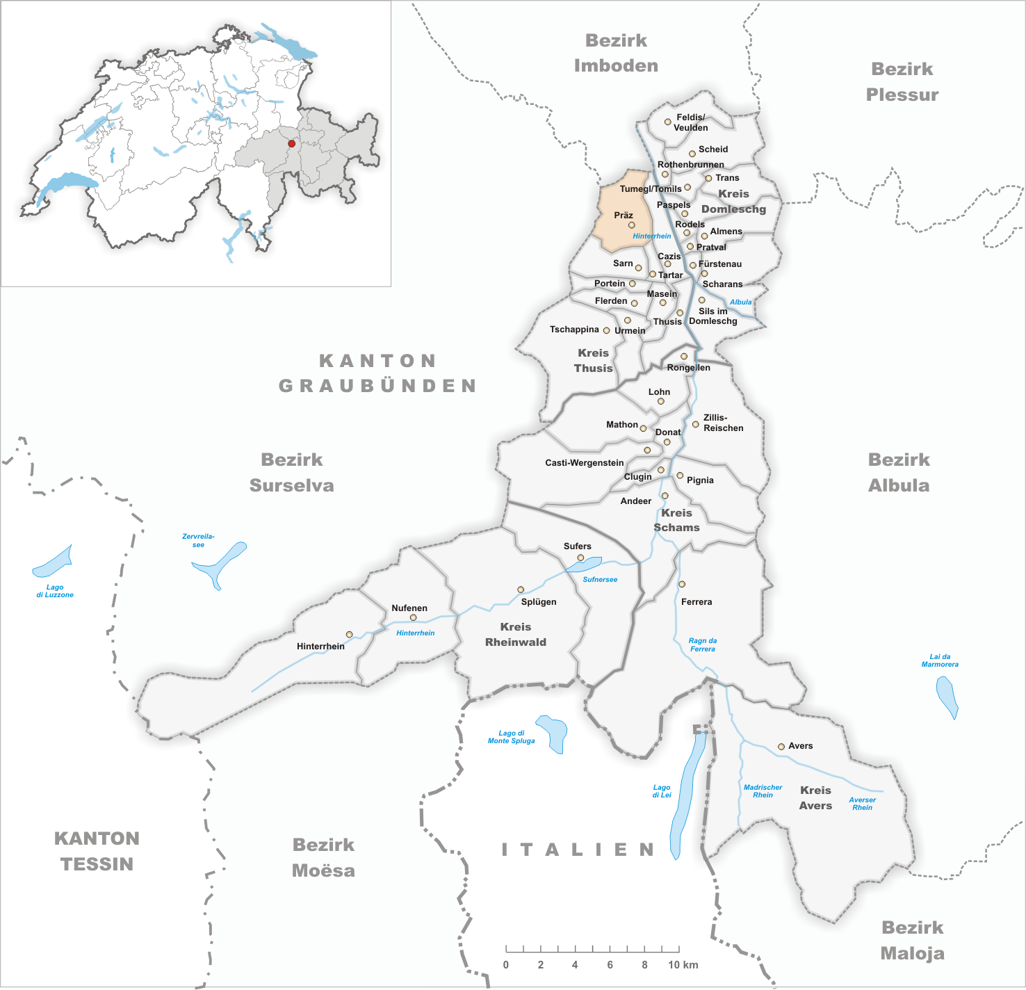 Municipality Präz